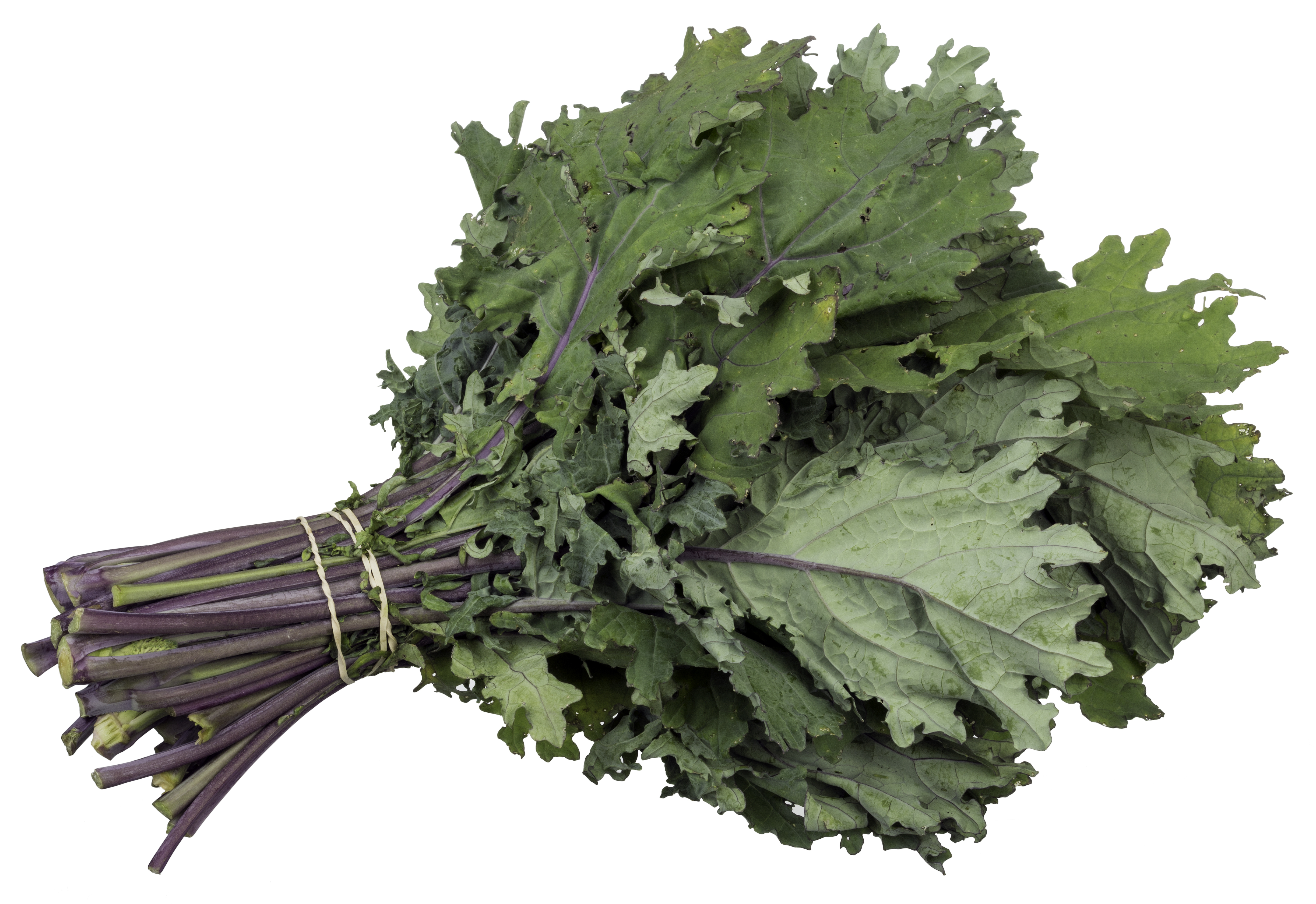 A bundle of rhubarb, from an organic food co-op.